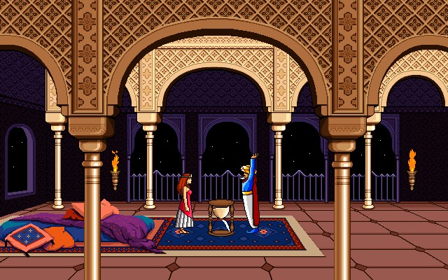 Screenshot from the video game (own work).